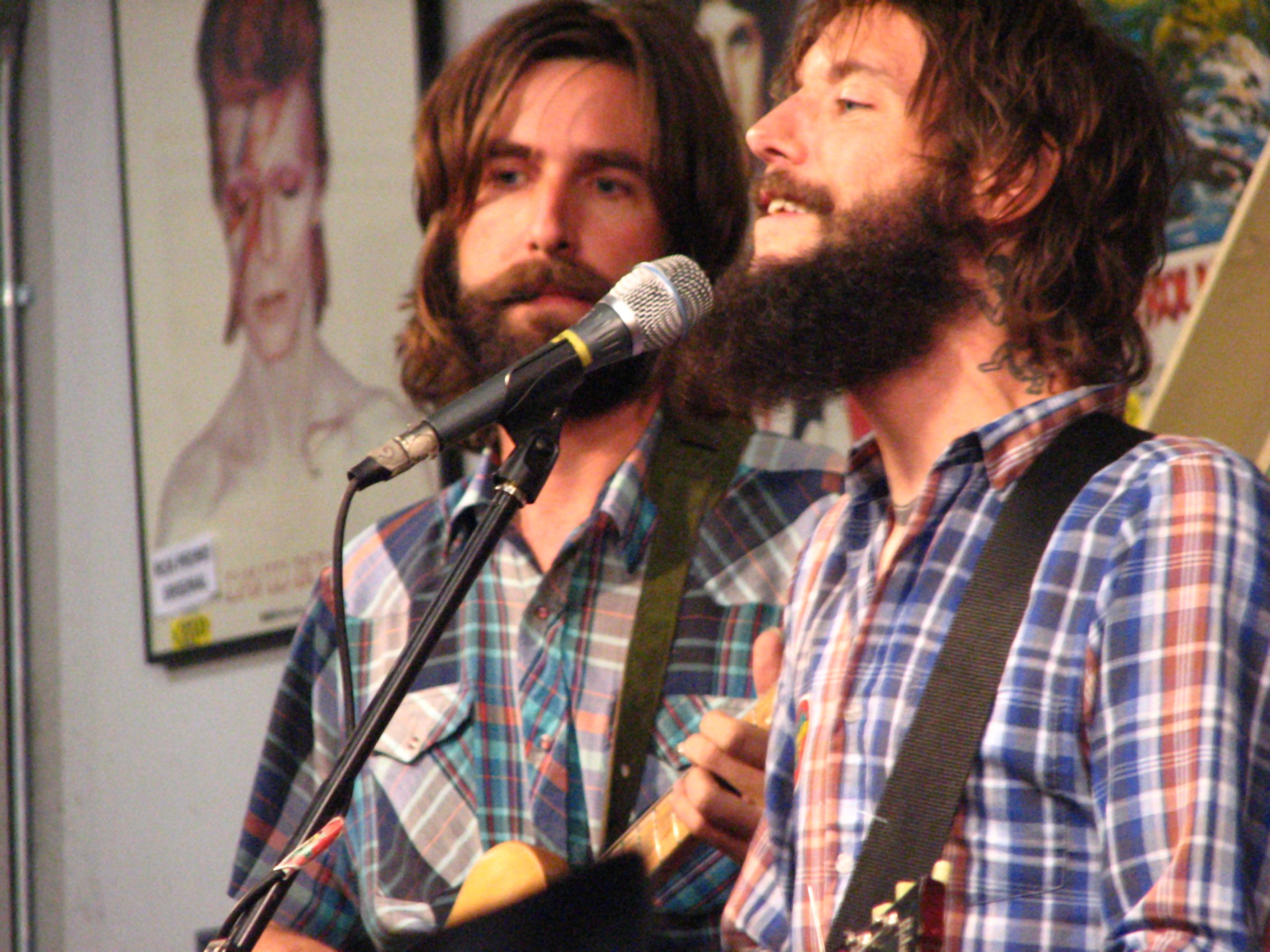 Tyler Ramsey and Ben Bridwell of Band of Horses playing instore at Amoeba Records in Los Angeles, October 10, 2007